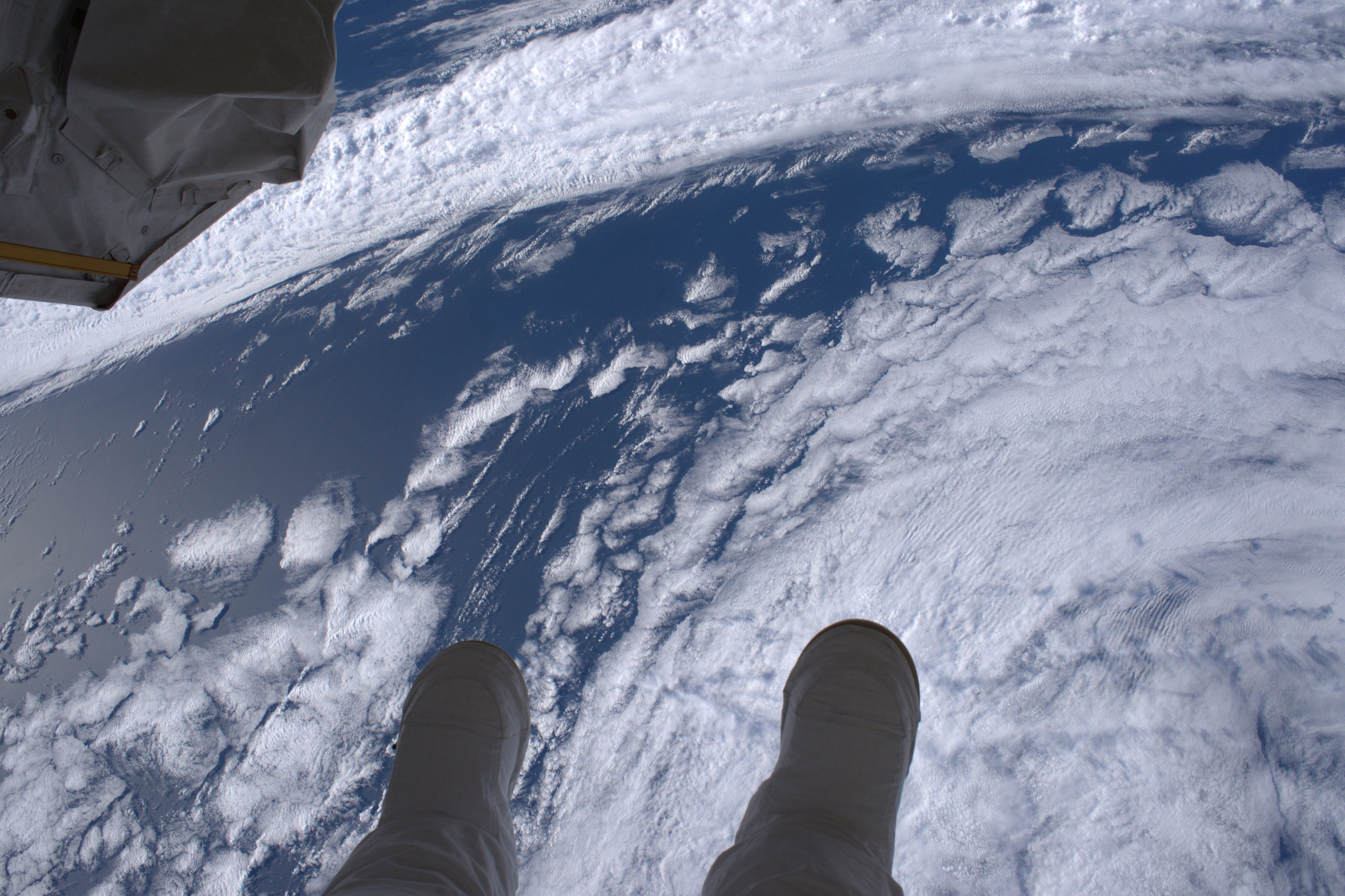 EVA from the International Space Station Astronaut Shane Kimbrough taking a picture of the earth and his boots during the March 24, 2017 EVA from the ISS